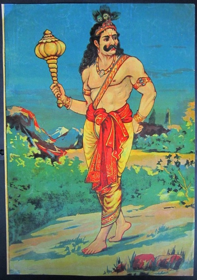 Vintage Bhim oleograph litho Ravi Varma Press B